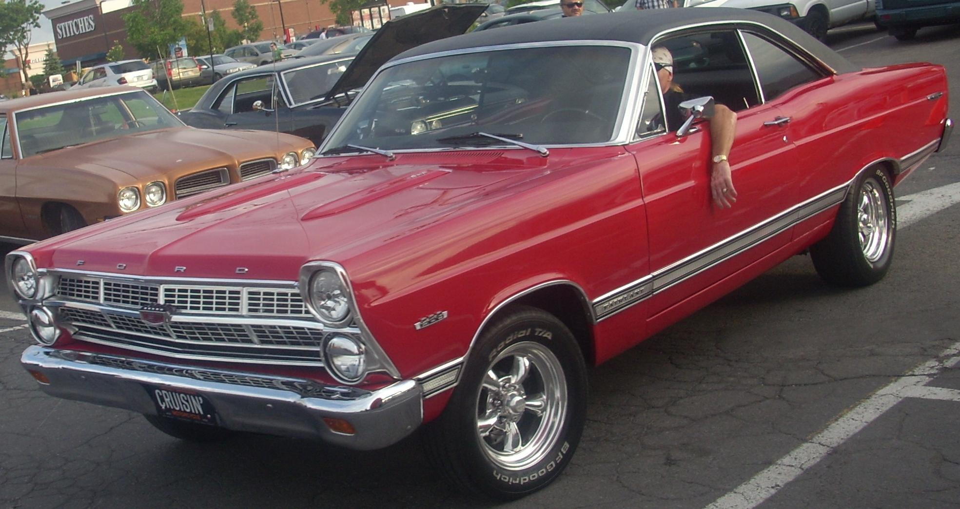 1967 Ford Fairlane 500 Hardtop photographed in Montreal, Quebec, Canada at Gibeau Orange Julep.